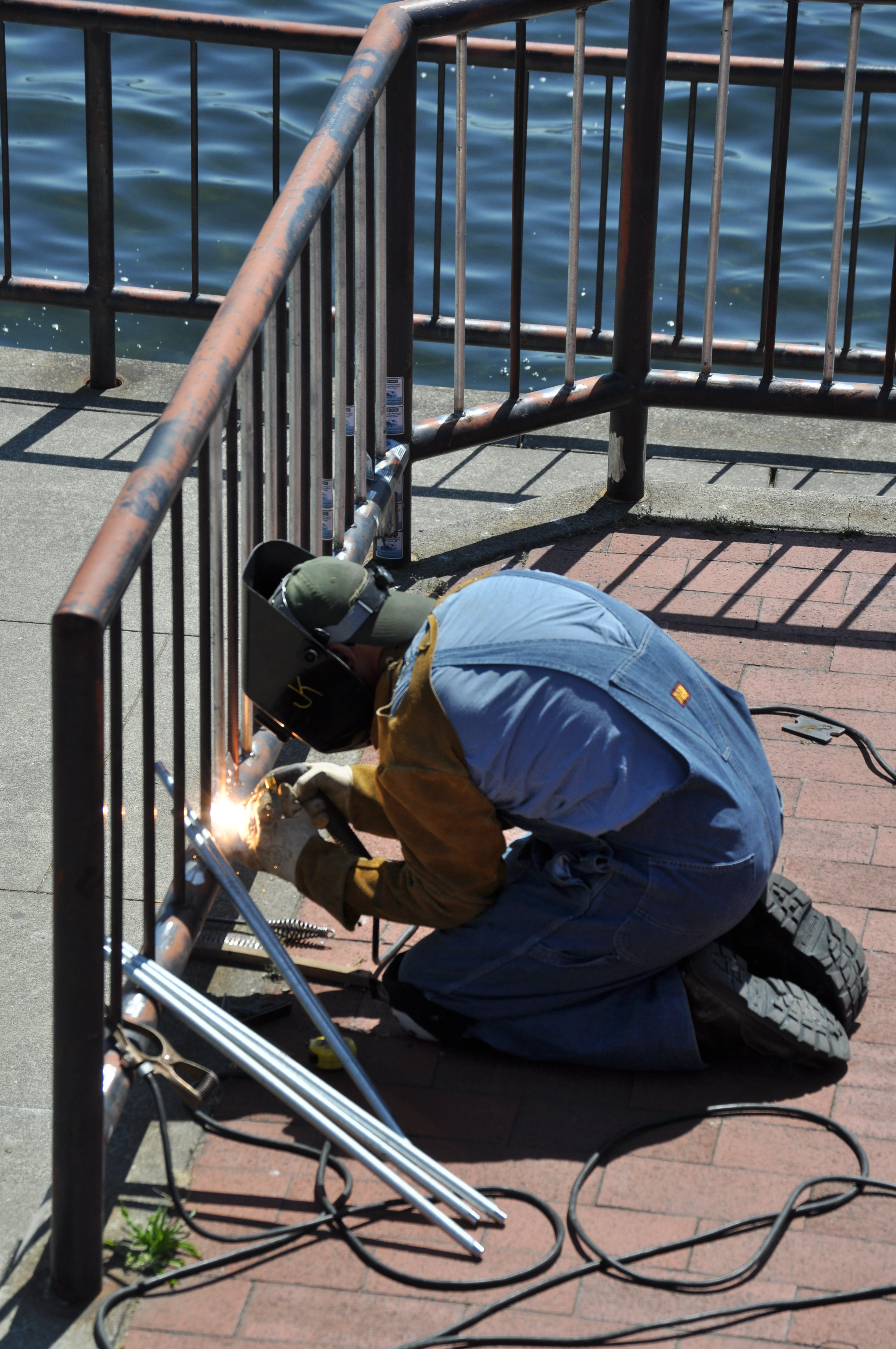 Welder adding bars to safety fence, Gas Works Park.